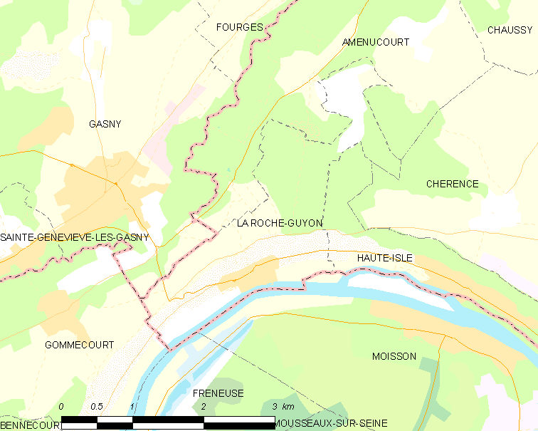 Map of French municipality La Roche-Guyon